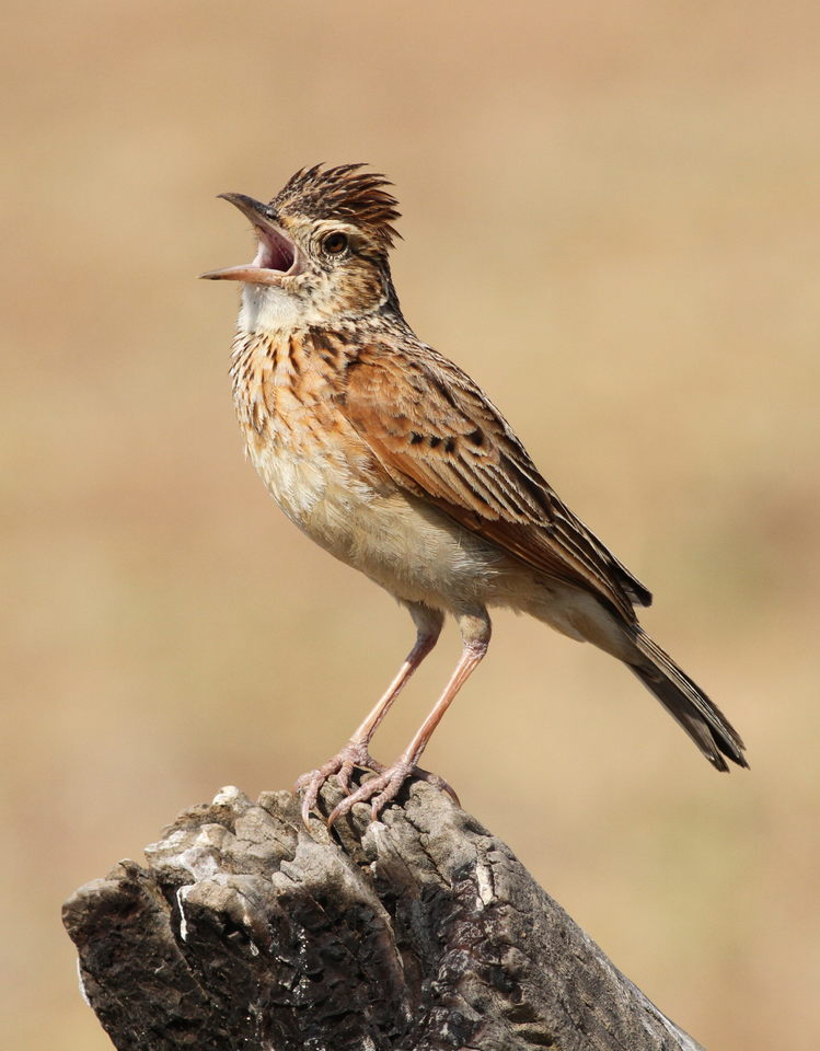 Rufous-naped lark at Pilanesberg National Park, South Africa